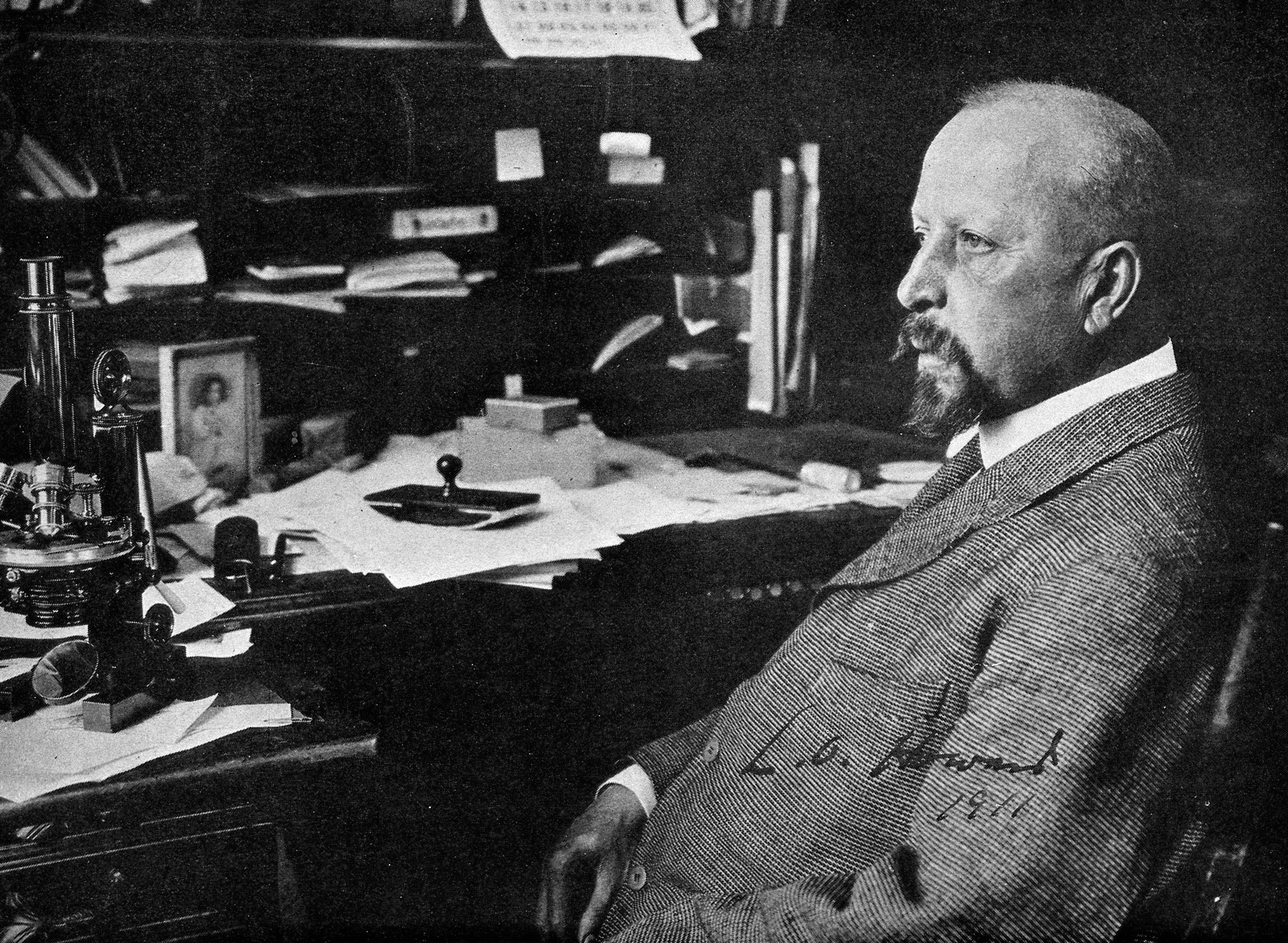 Portrait of Leland Ossian Howard (1857-1950)